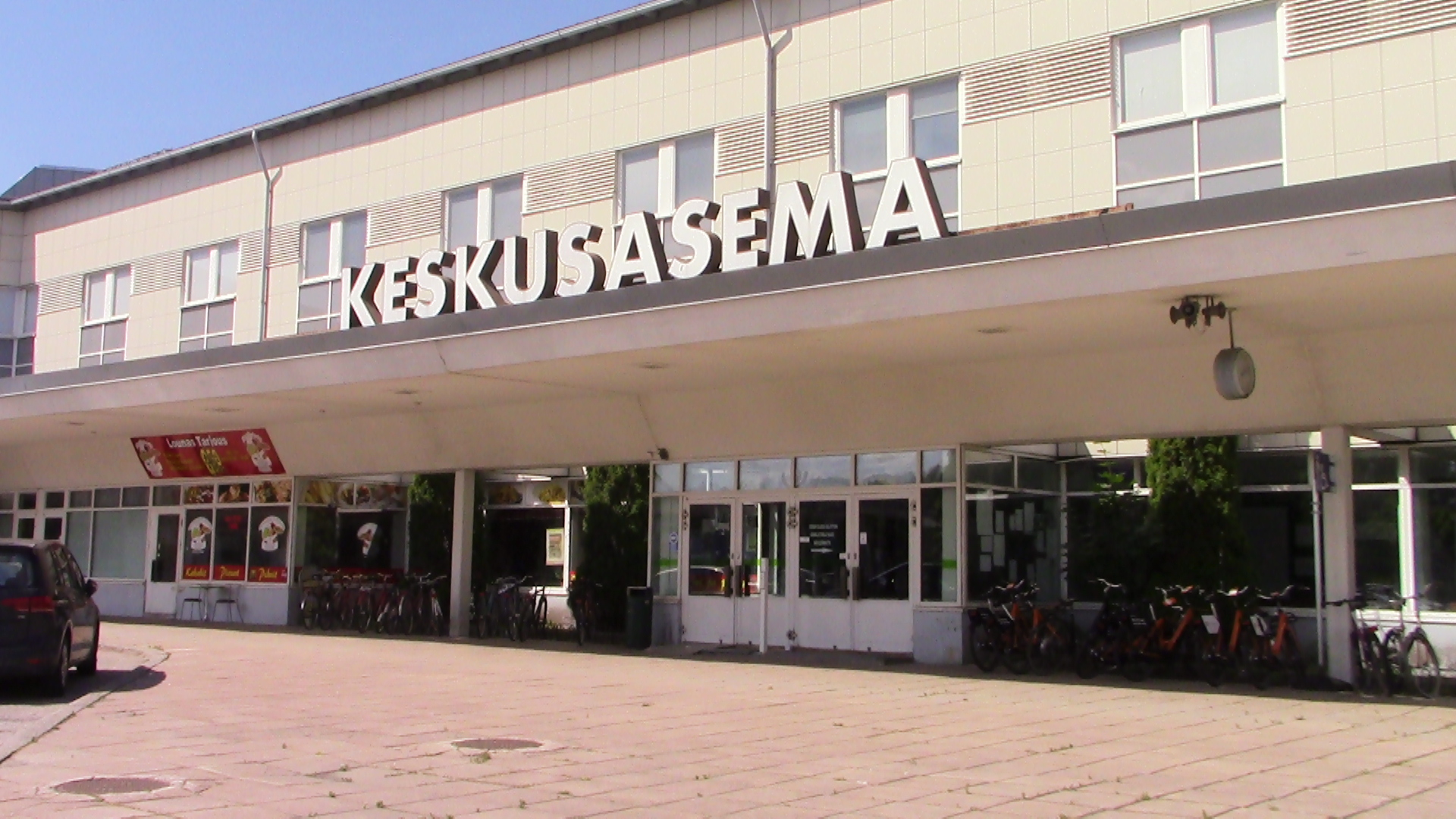 Imatra travel center as seen from the front area of main entrance.